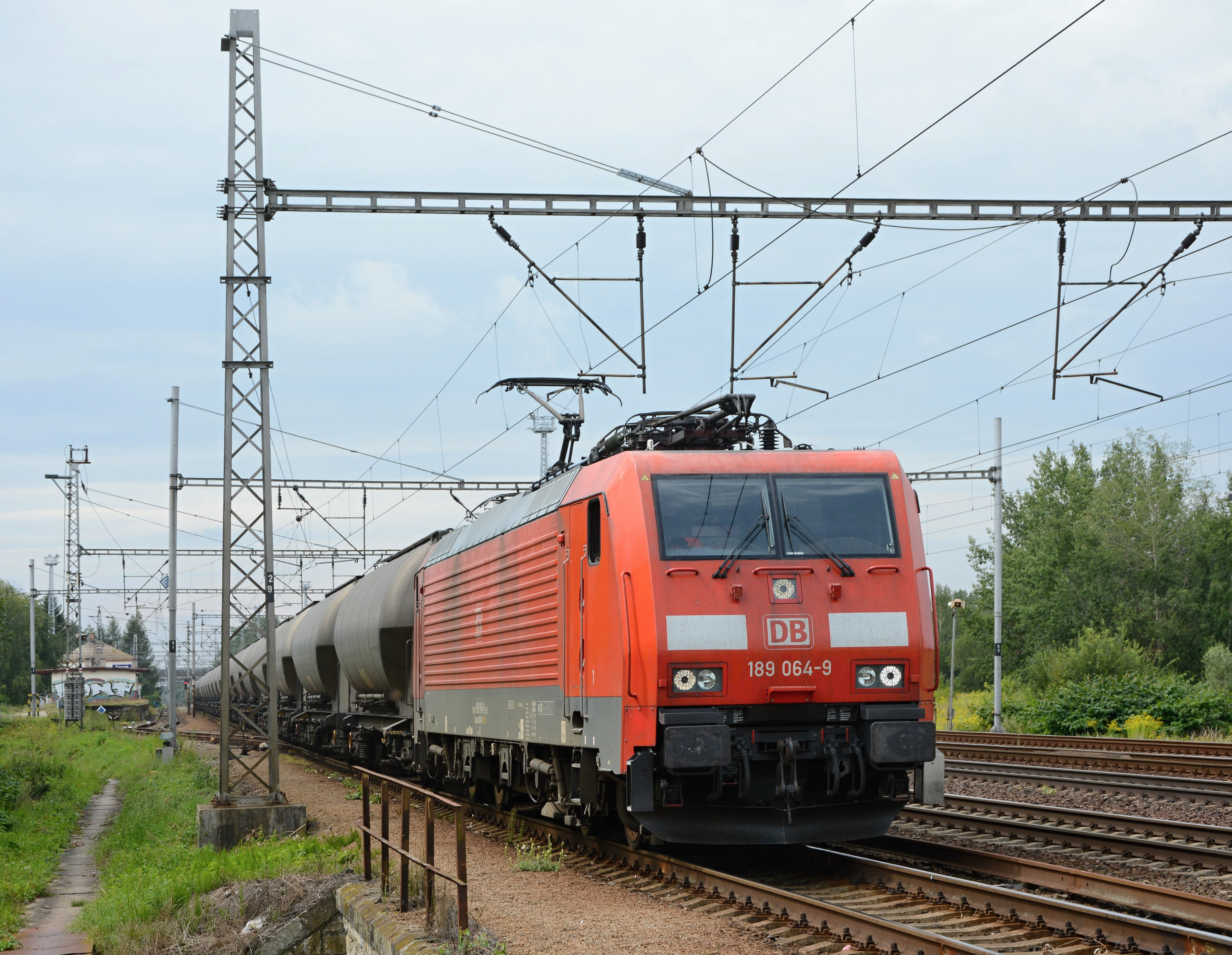 189 064 of DB Cargo with a train No. 46601 of Arriva vlaky carrier with aluminium oxide from Rotterdam Botlek to Žiar nad Hronom; Zámrsk station, Czech Republic